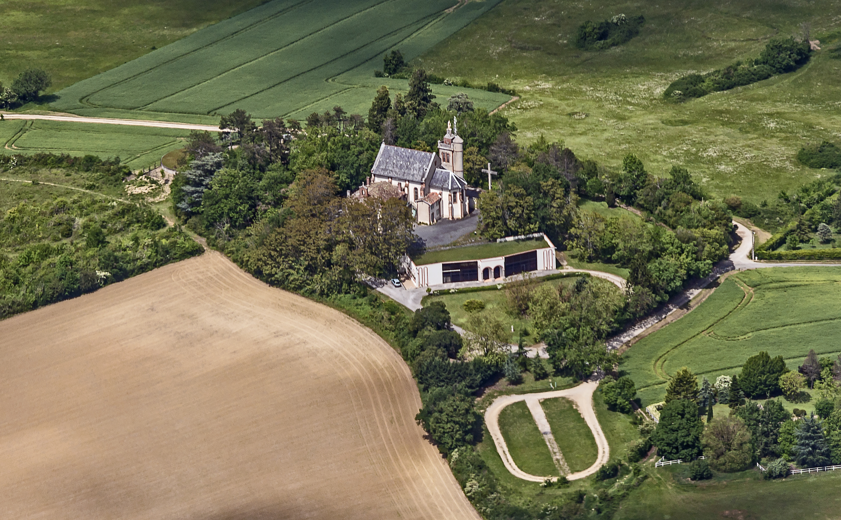 Aerial view of Lavaur, Tarn, France. Shrine of Notre-Dame du Pech